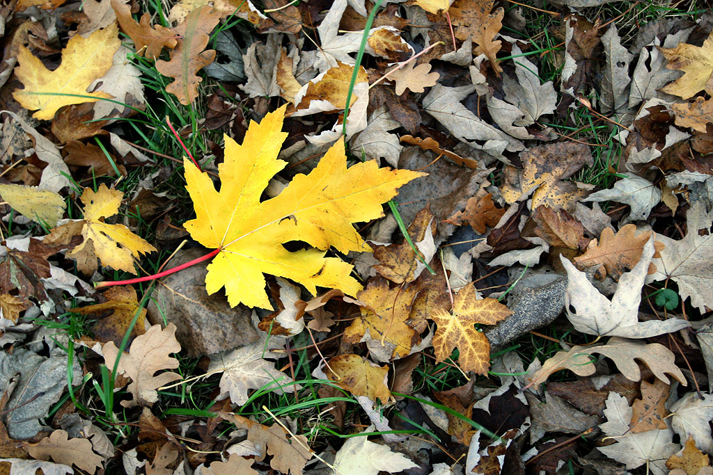 Yellow leaf from a Silver Maple Acer saccharinum in autumn